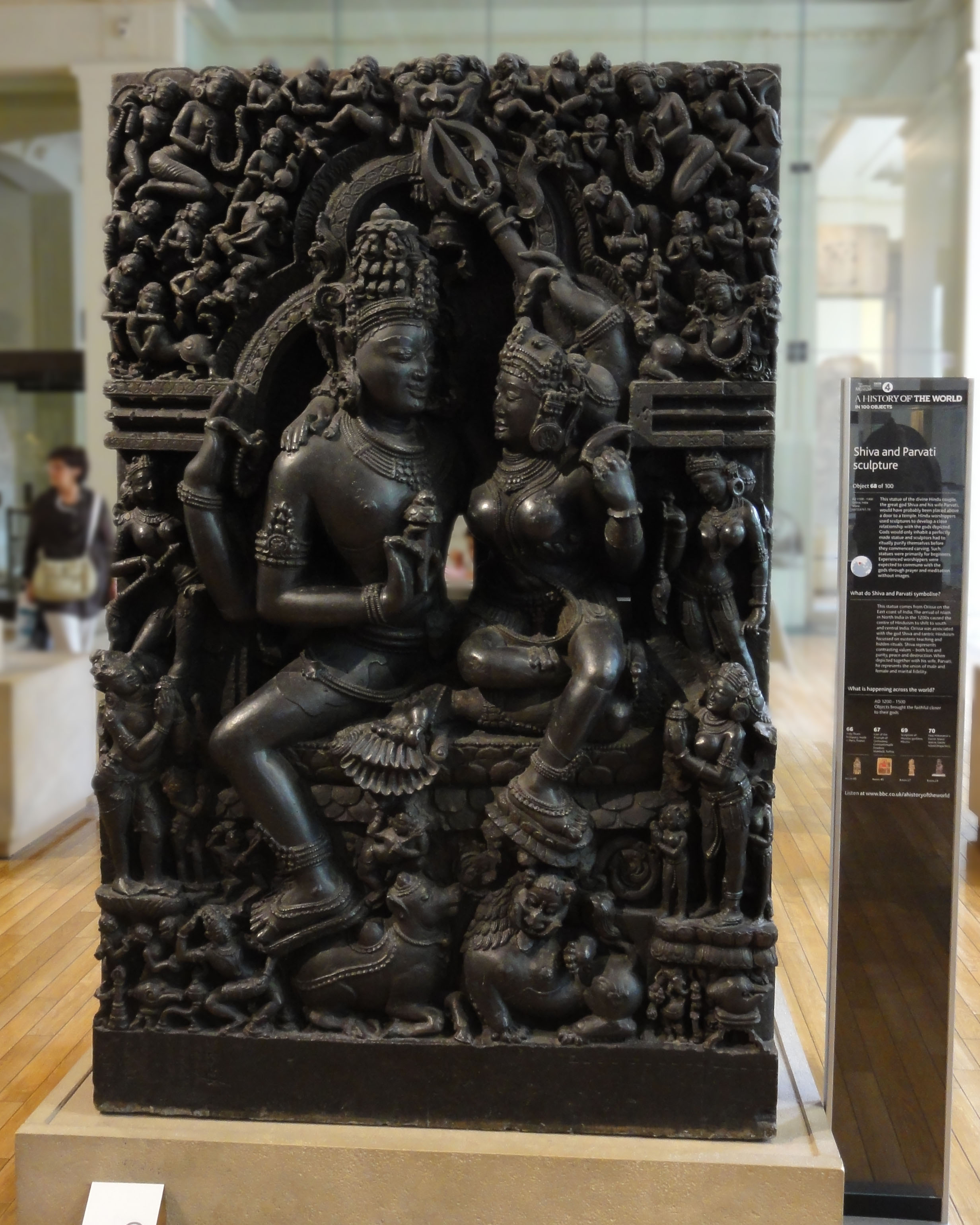 Object 68 of the BM/BBC radio series. Shown with display panel in the British Museum.